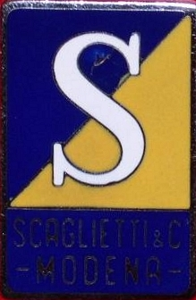 1958 Ferrari 250 Testa Rossa Scaglietti badge Scaglietti-bodied 250 racer from the Ralph Lauren collection on display at the Boston Museum of Fine Arts. Photo taken in 2005. Source: Photo by User:Sfoskett